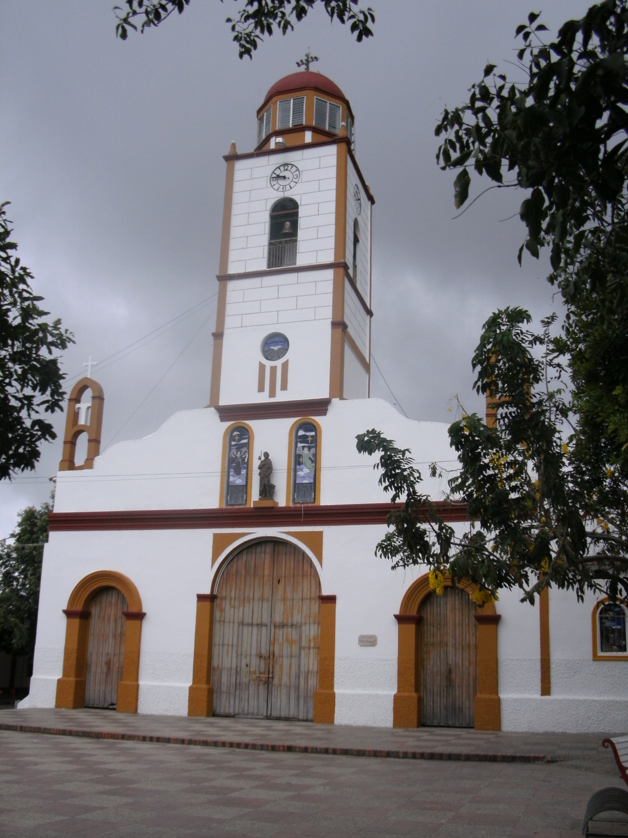 San Roque Church